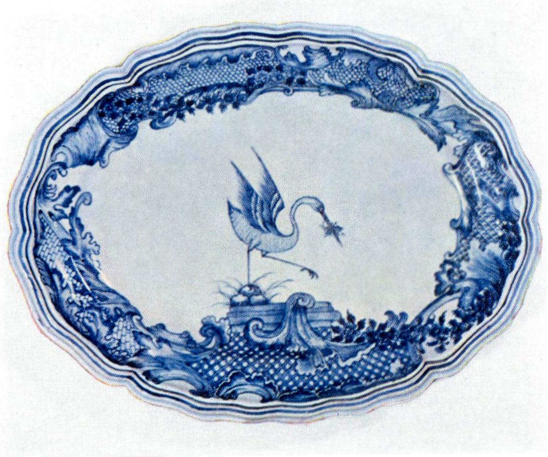 A dish of Chinese porcelain with the Grill coat of arms crane made for the Grill family in the 1700s. The plate is in the collection of the Gothenburg museum, Sweden.